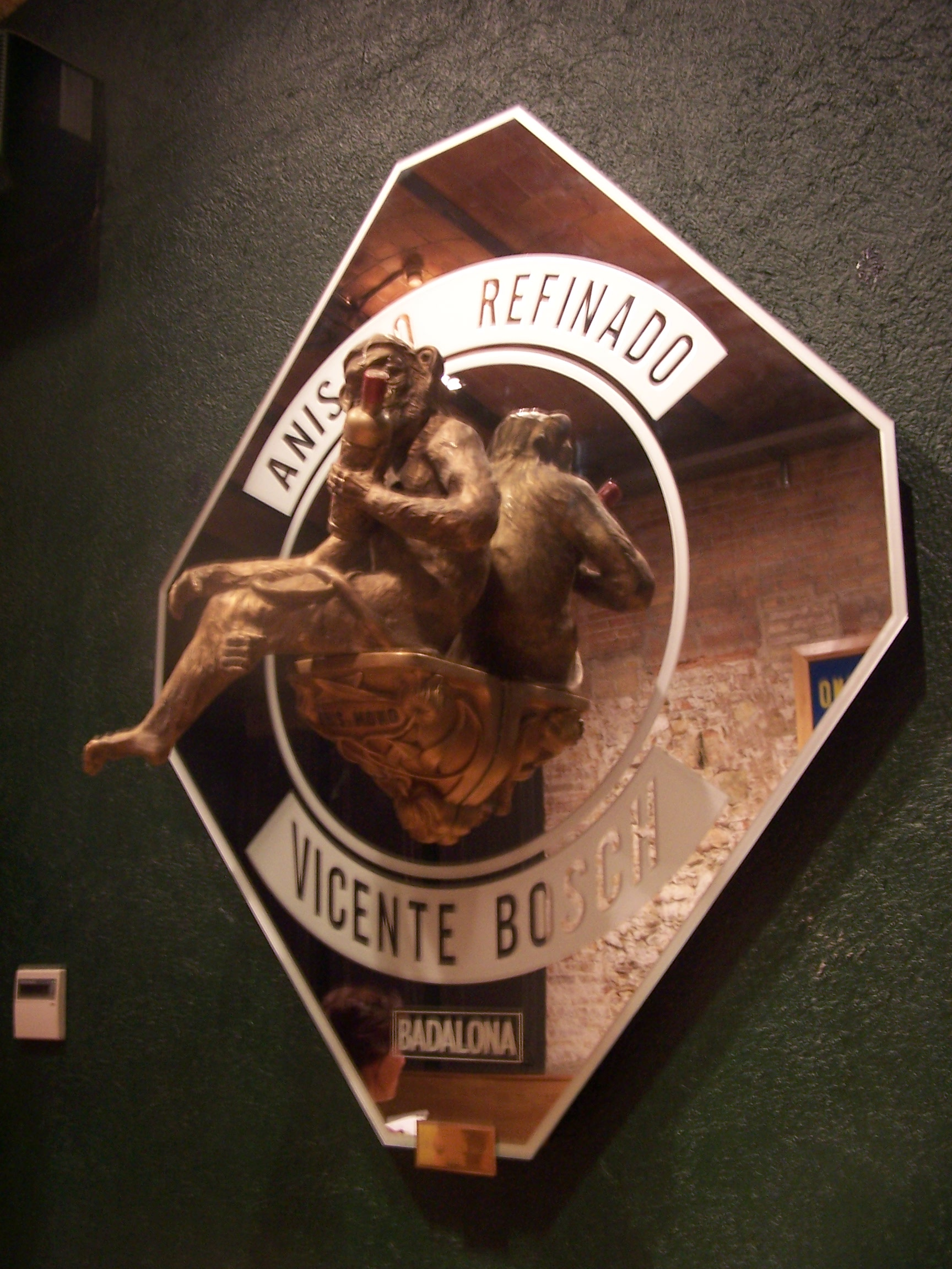 Anis del Mono Factory in Badalona, Catalonia